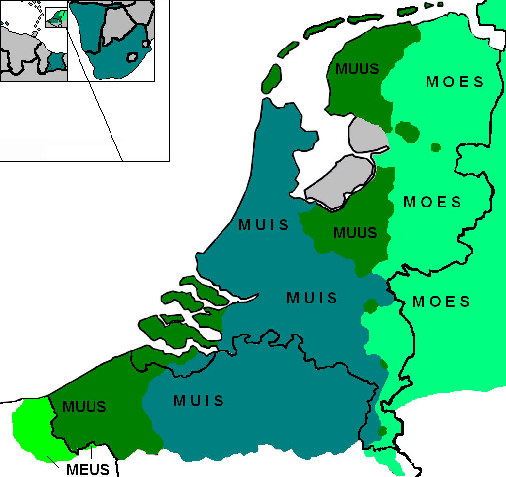 pronounciation of "mouse" in the Netherlands